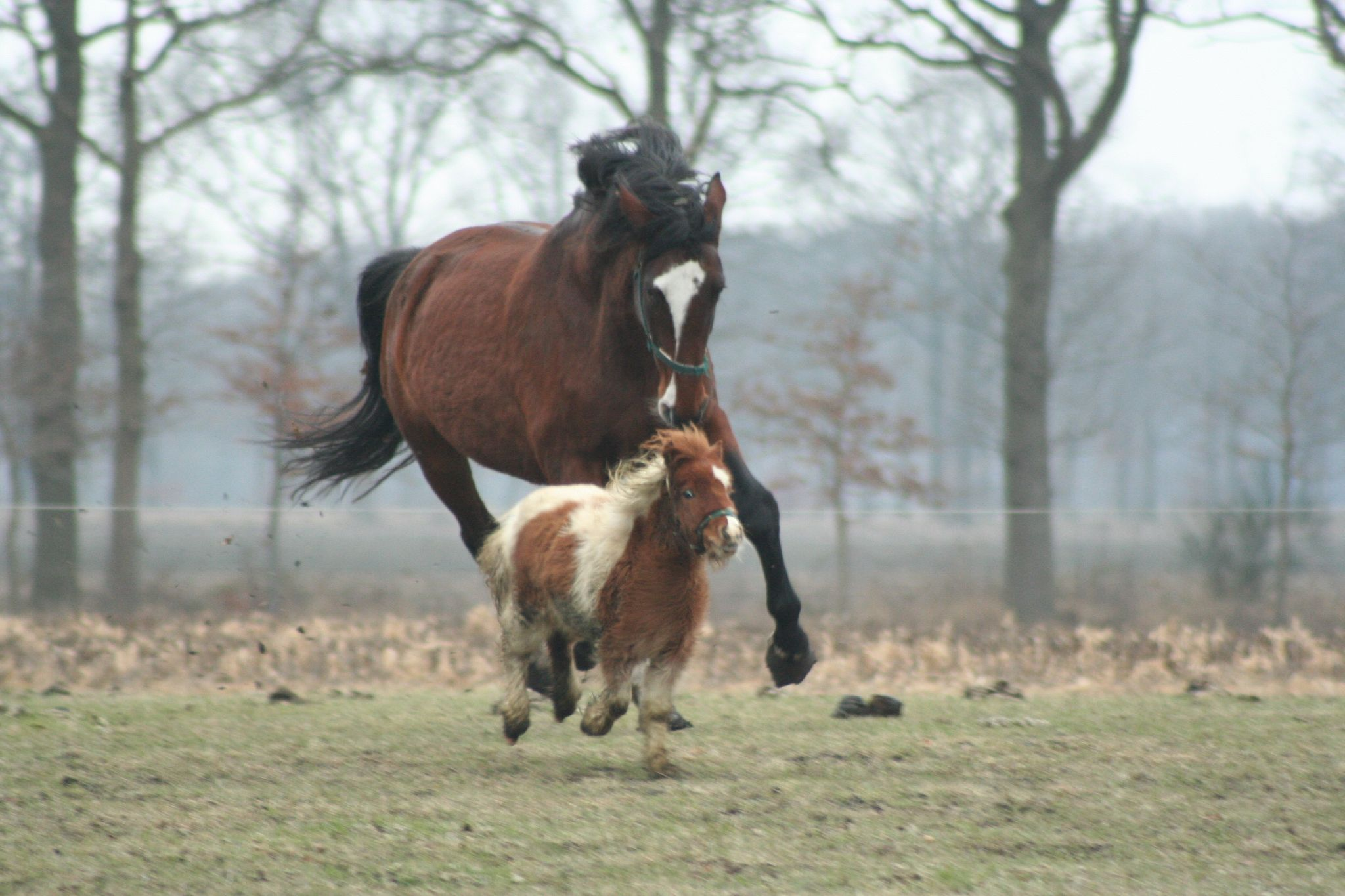 The little pony running for his life after defying an unexpectedly big horse via "Catch me if you can."